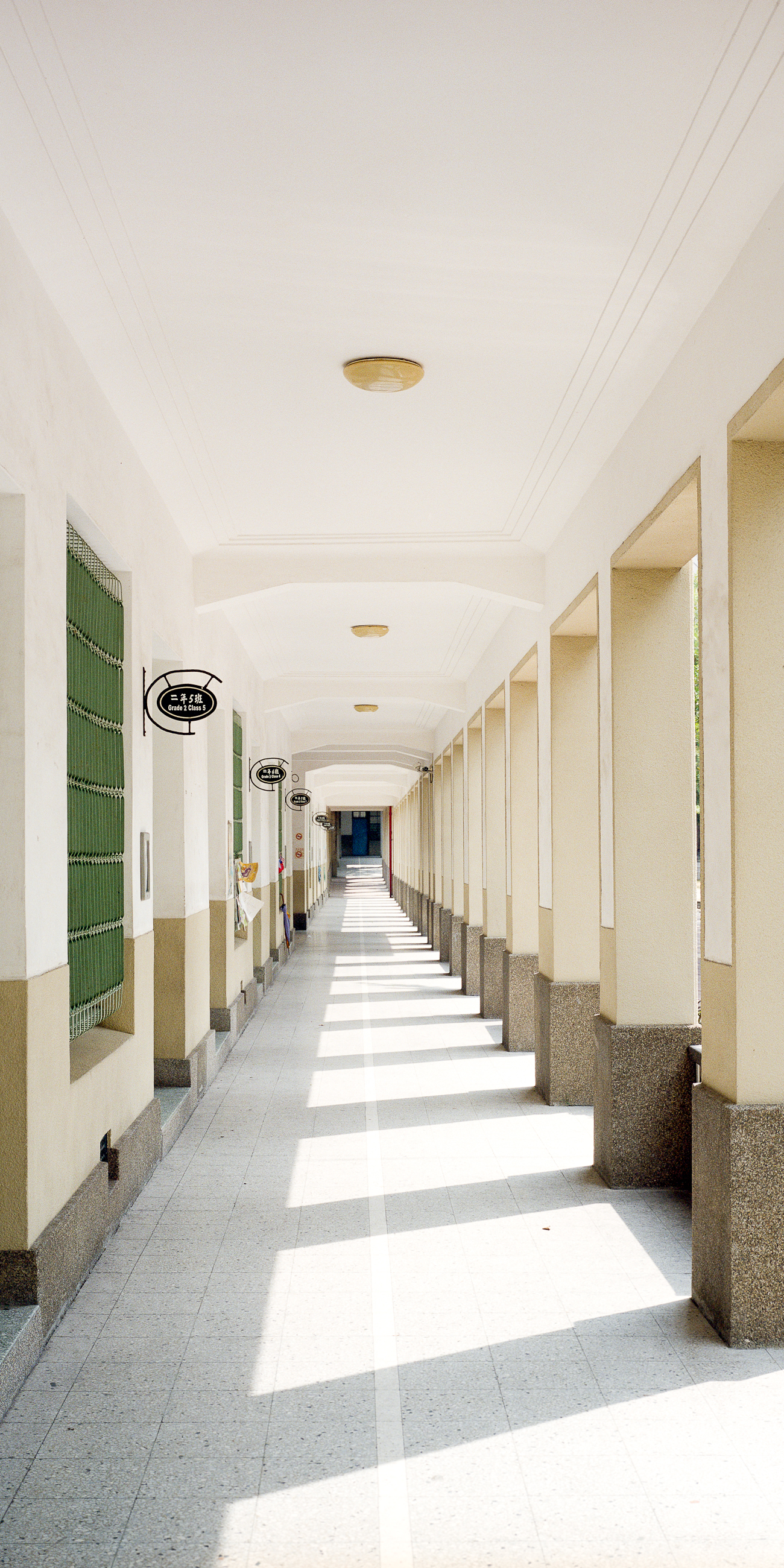 The corridor of Zhongzheng Elementary School, Erlin Township, Changhua County.